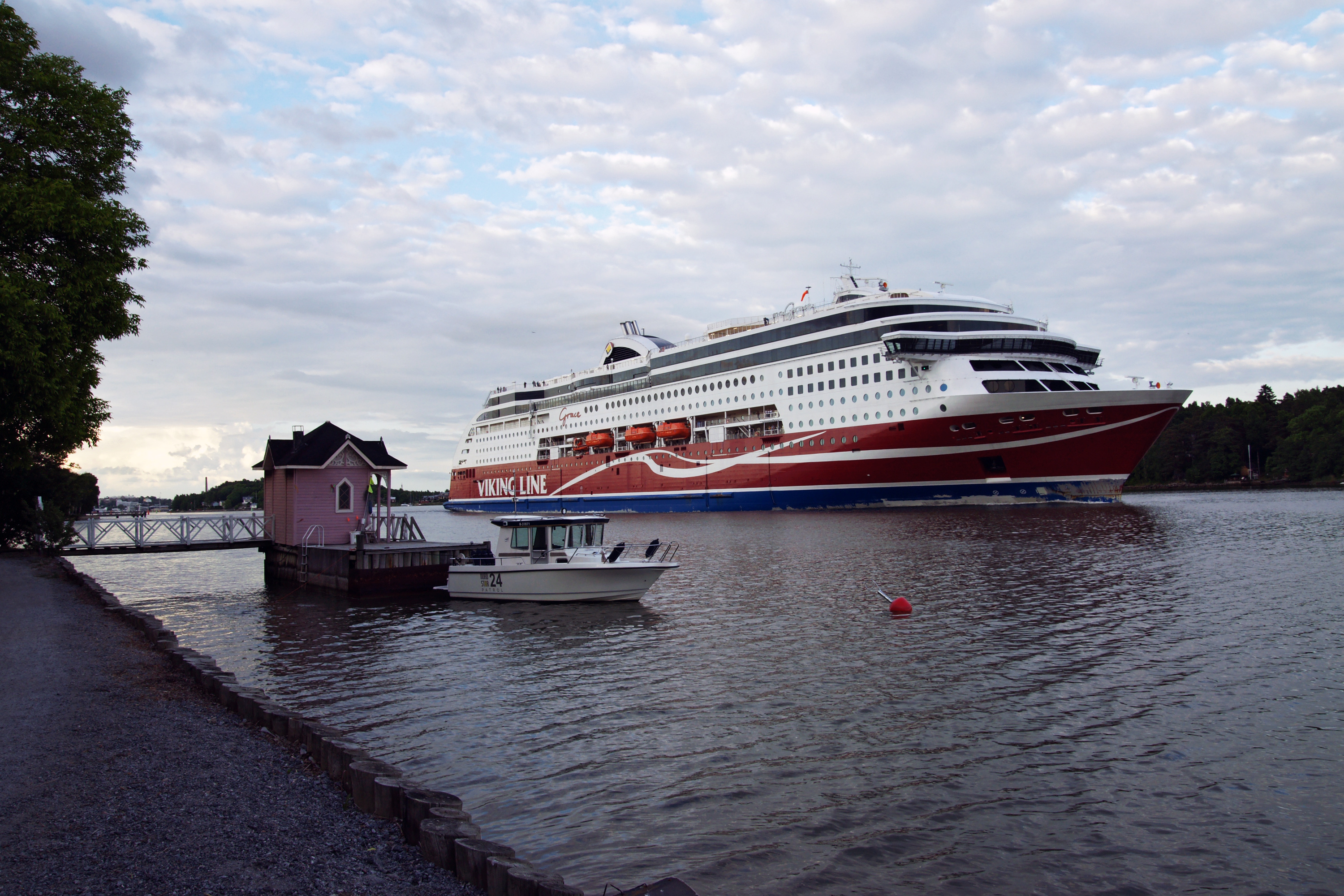 Car ferry Viking Grace